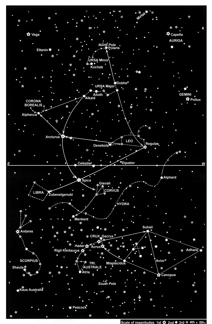 figure 1535 of APN2002